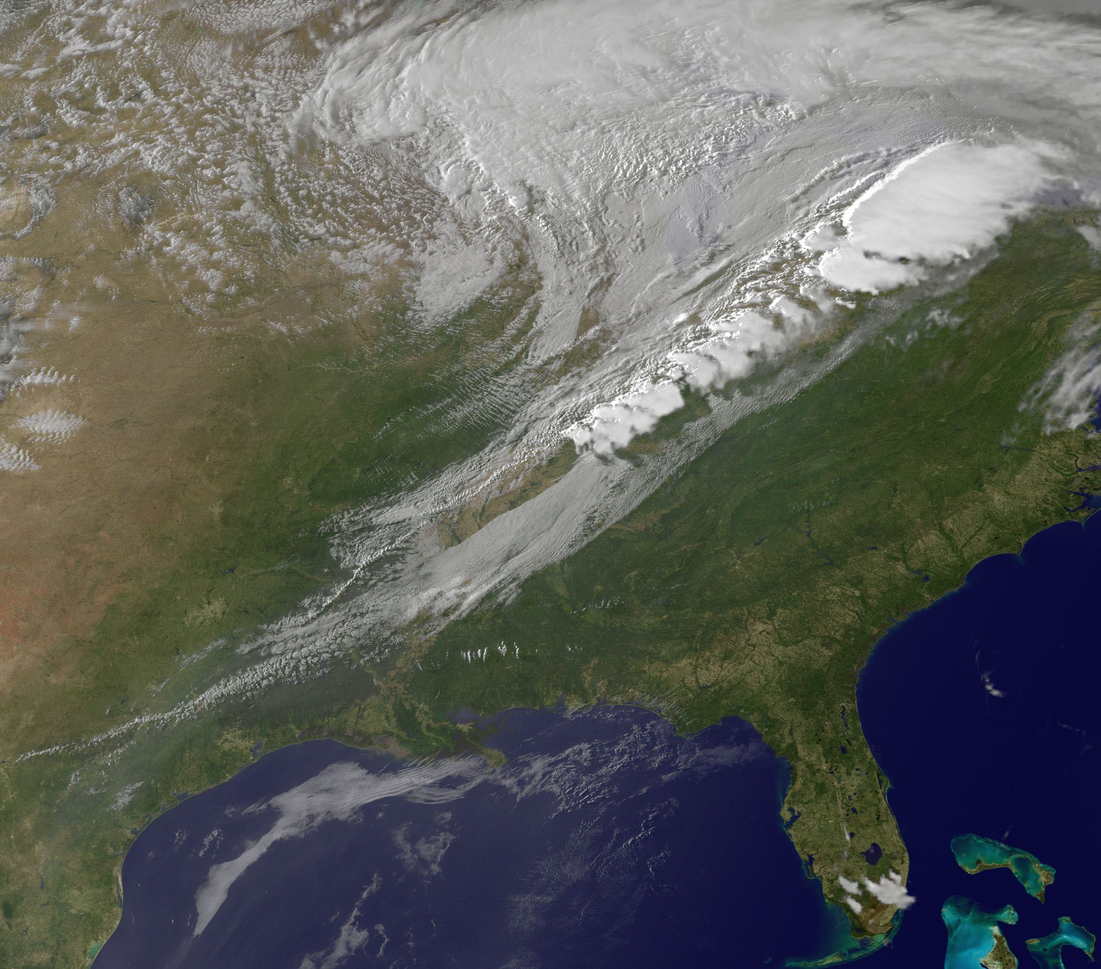 A Cold front visible satellite image taken by the Goes 13 on May 08, 2012.